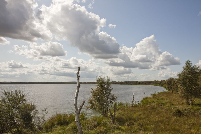 Tofte Sø, natural lake resort in Lille Vildmose, Denmark